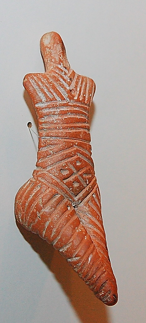 Mother goddess Cucuteni Culture Piatra Neamt Museum